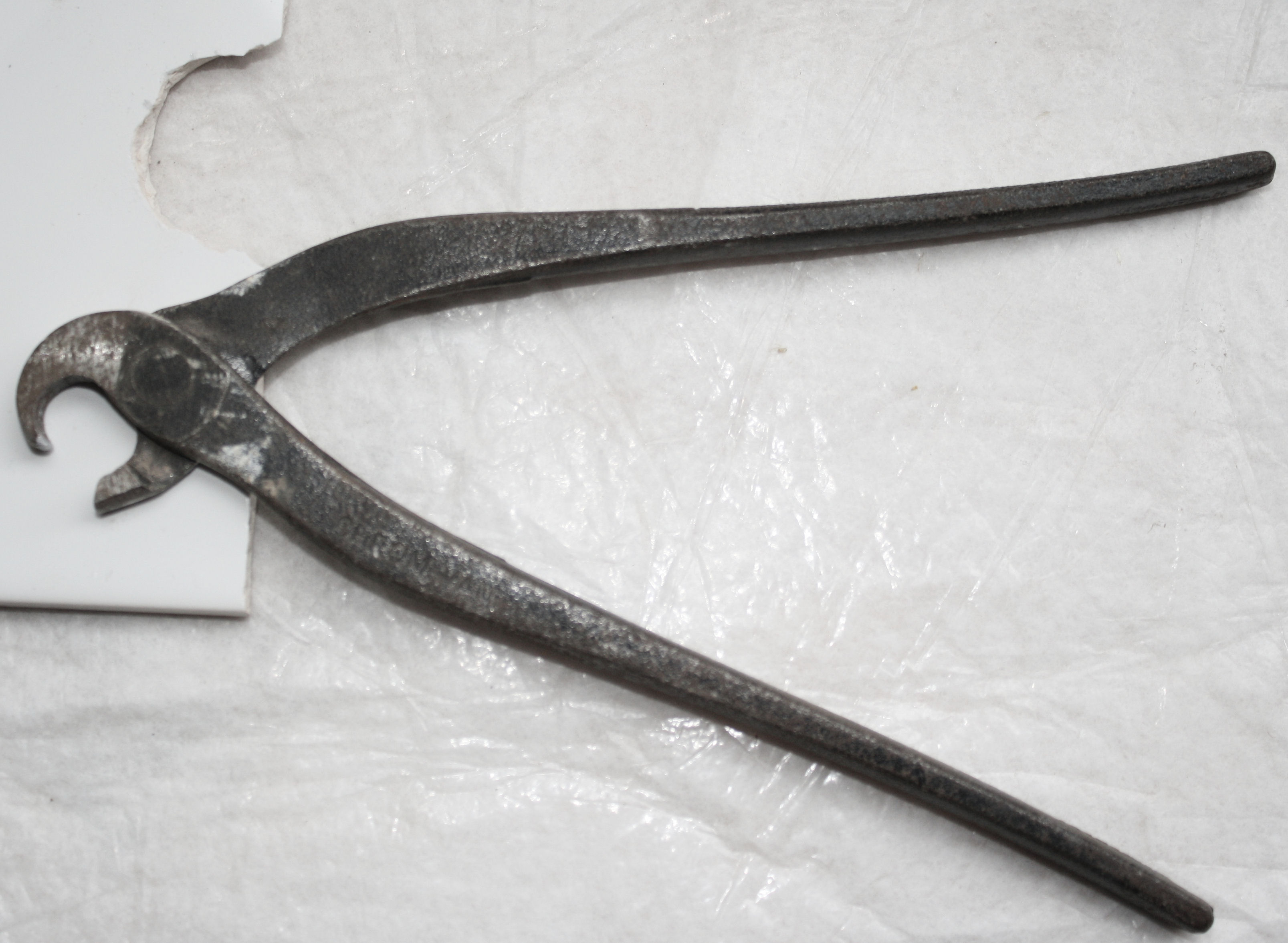 A parrot pliers to break holes and curves in tile